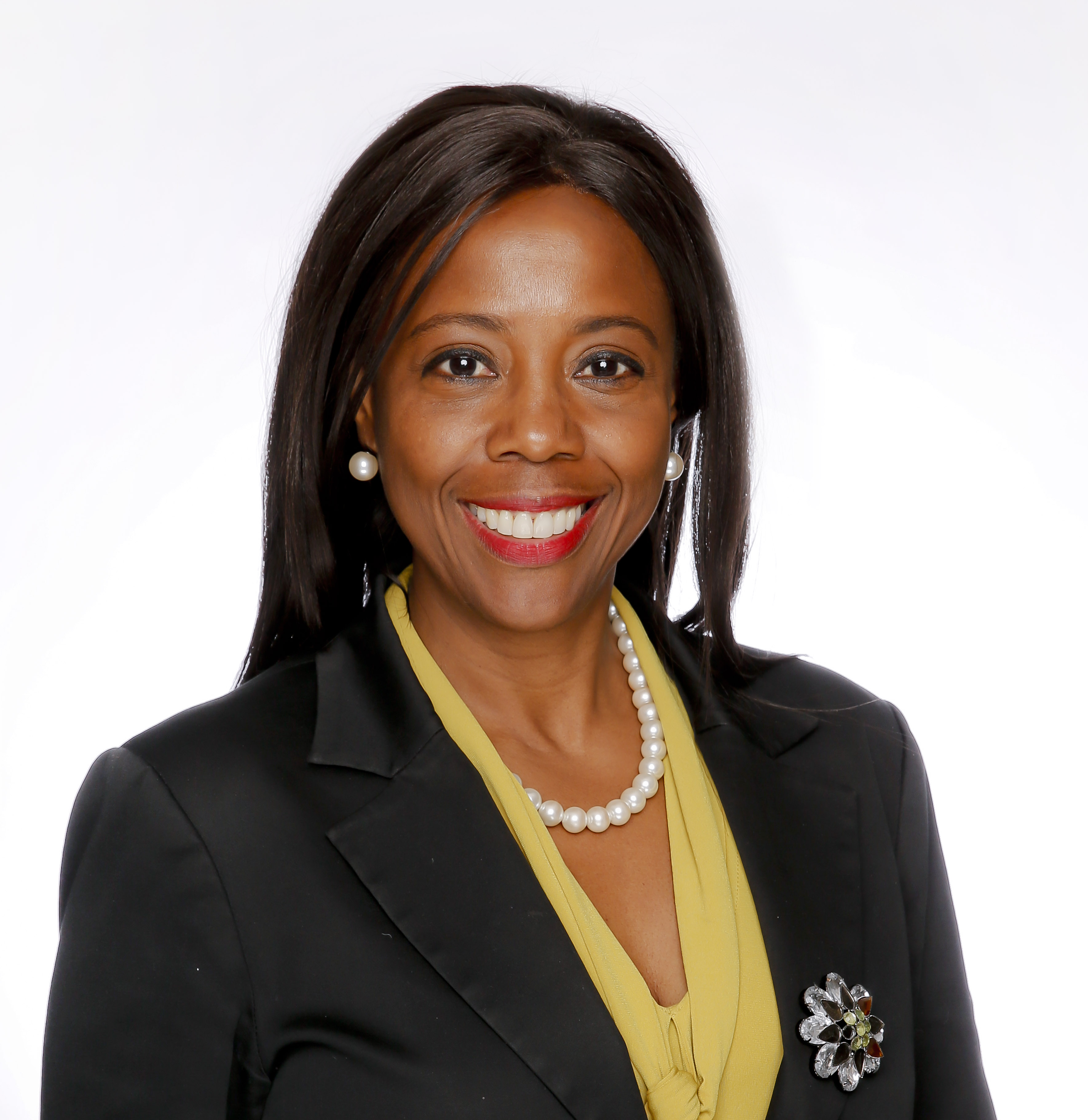 This is the official faculty photo of Associate Professor Marcia Annisette of York University.